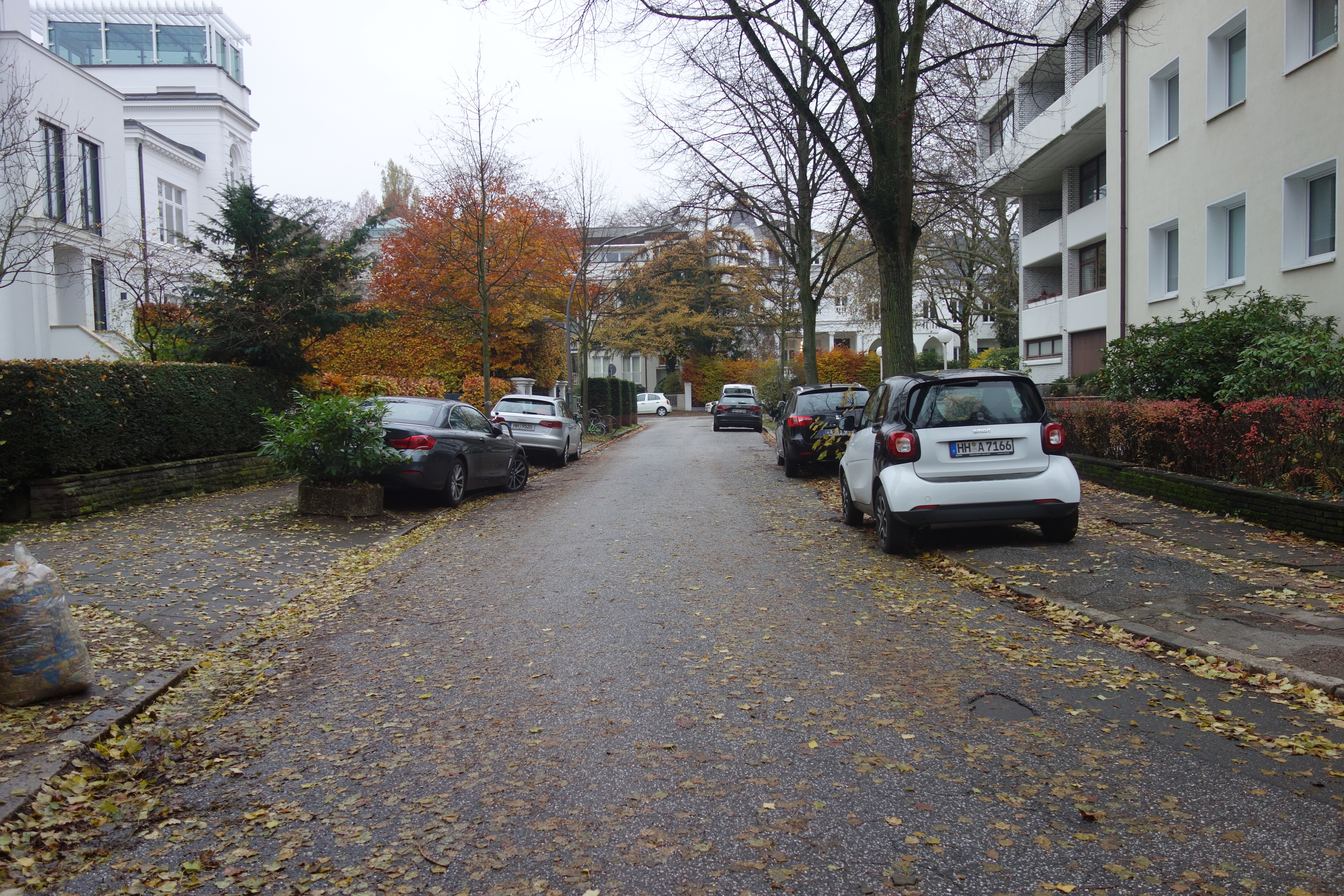 Street in Hamburg